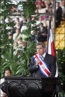 Óscar Arias Sánchez, president of Costa Rica, during a visit by US president George W. Bush May 8, 2006